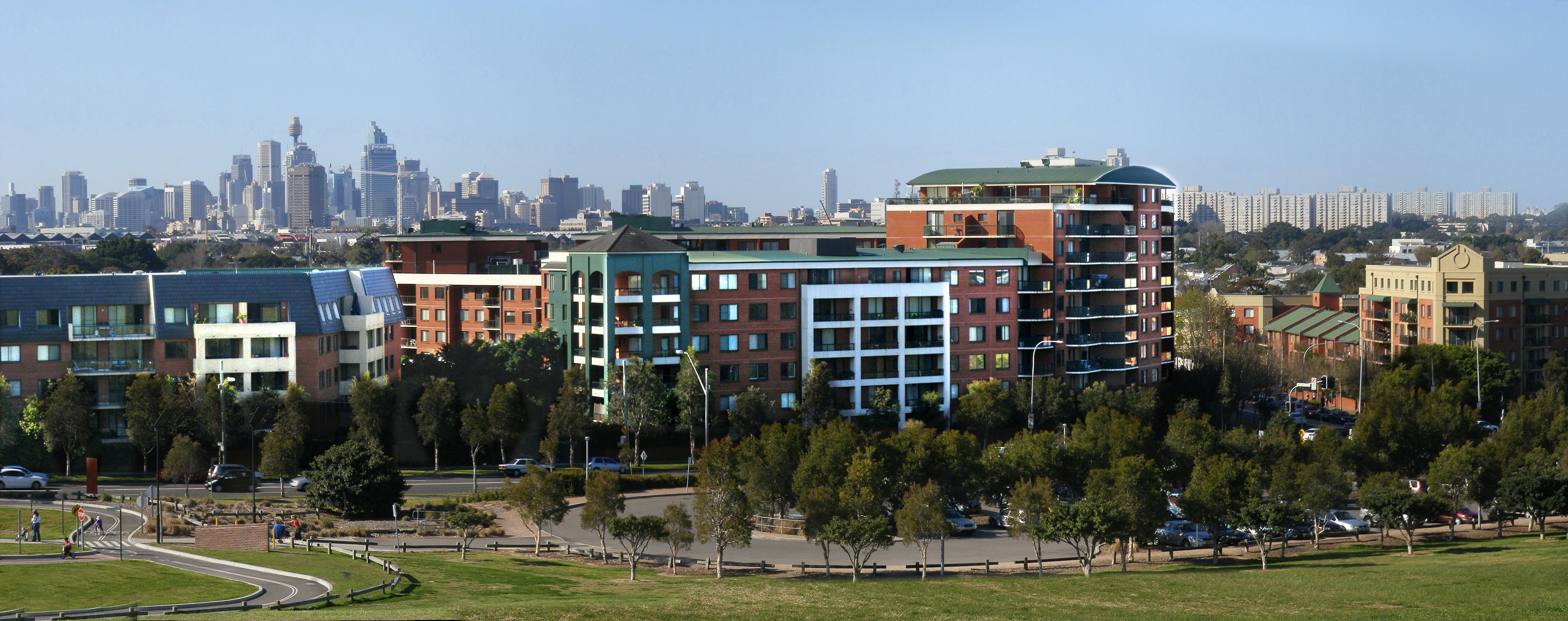 Sydney City Suburban area , Sydney Park Road